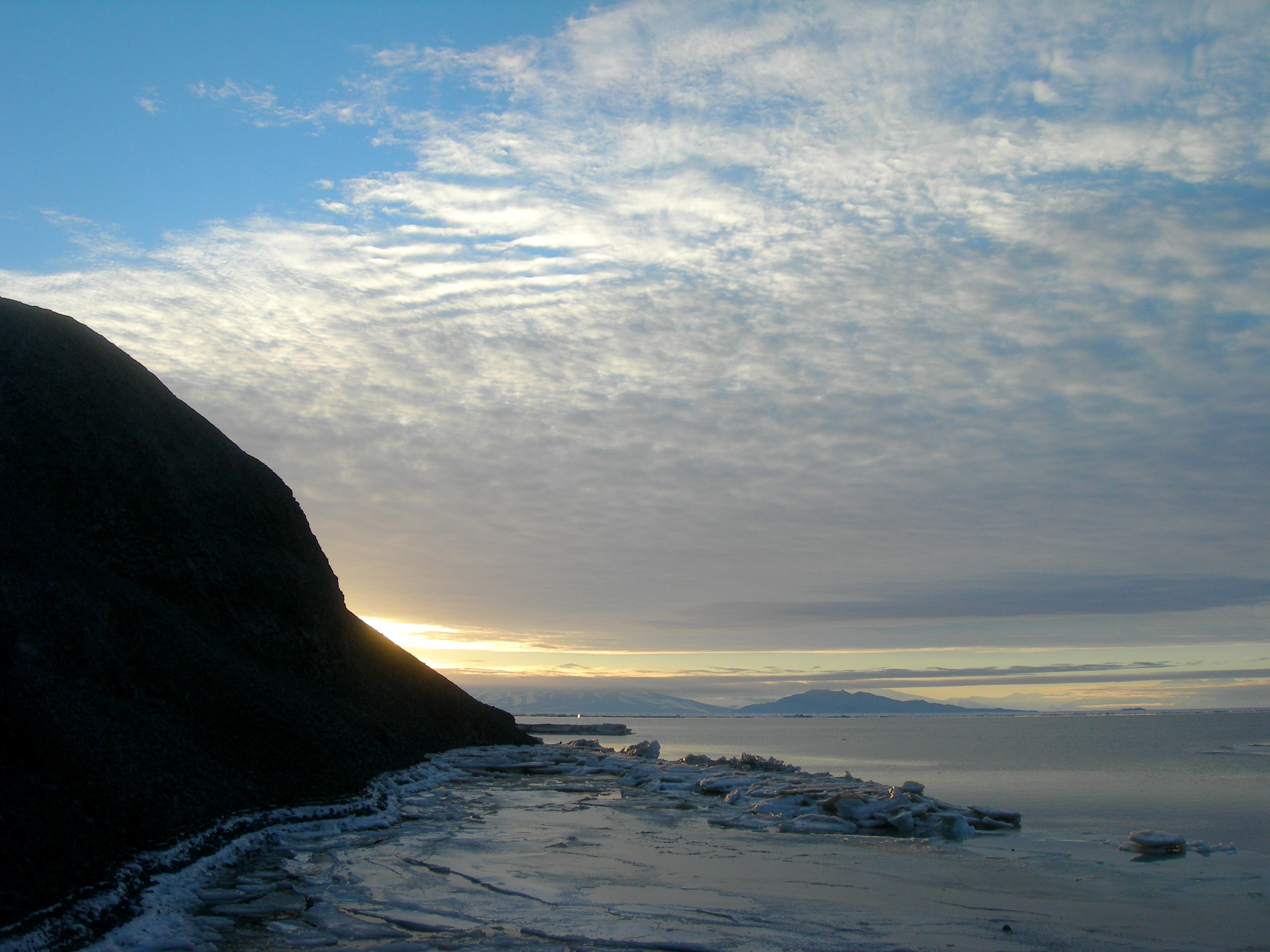 Hut Point, Antarctica